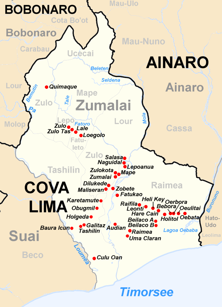 Administrative map of the Zumalai subdistrict of East Timor